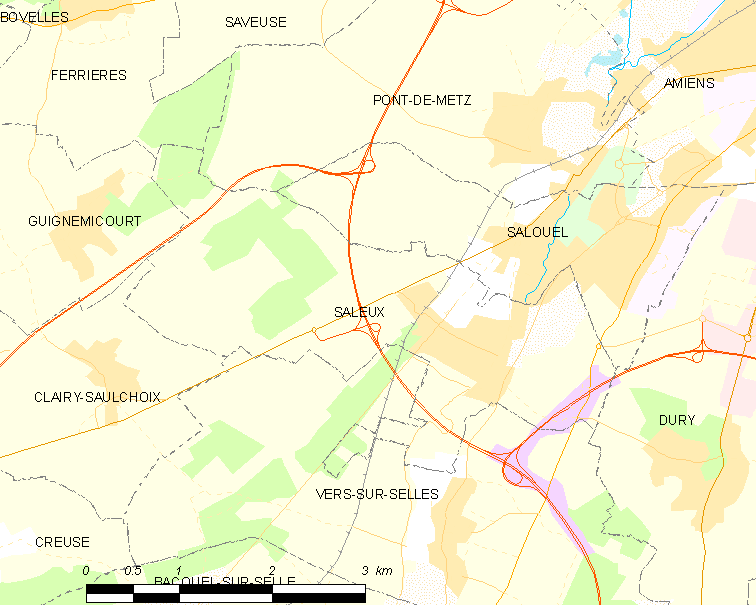 Map of French municipality Saleux